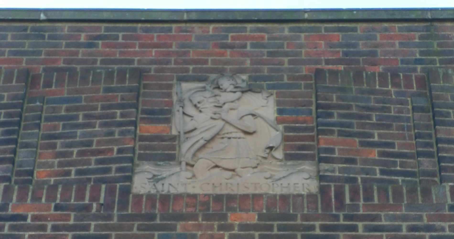 Bas-relief of St Christopher on the tower of the Hounsom Memorial United Reformed Church, Nevill Avenue, Hangleton, City of Brighton and Hove, England. The church was designed in 1938 by John Leopold Denman.